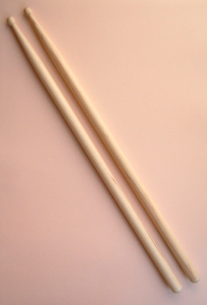 drum stick. ドラムスティック。 The style of this picture is a pastiche of Tomomarusan's work.